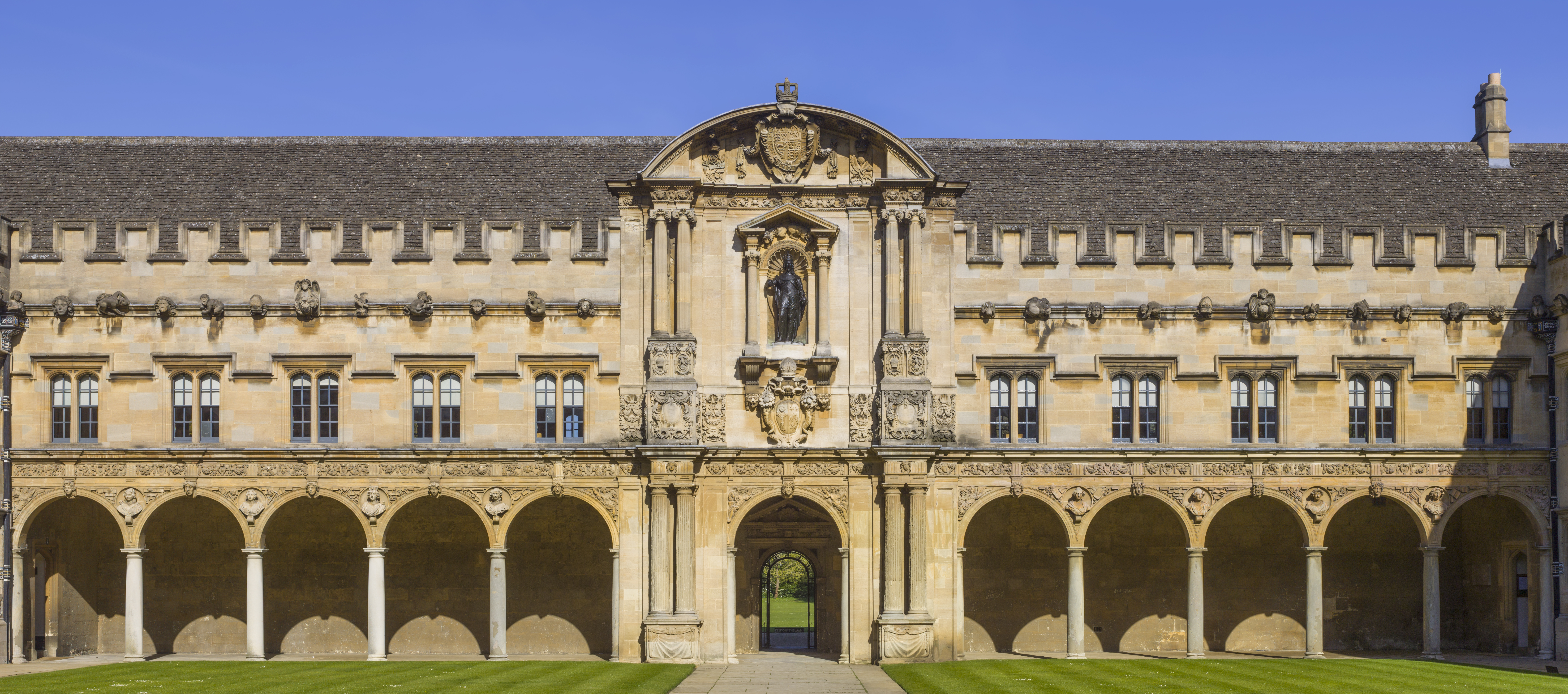 St John's College (Oxford University) founded in 1555. View of East side of Canterbury Quad.